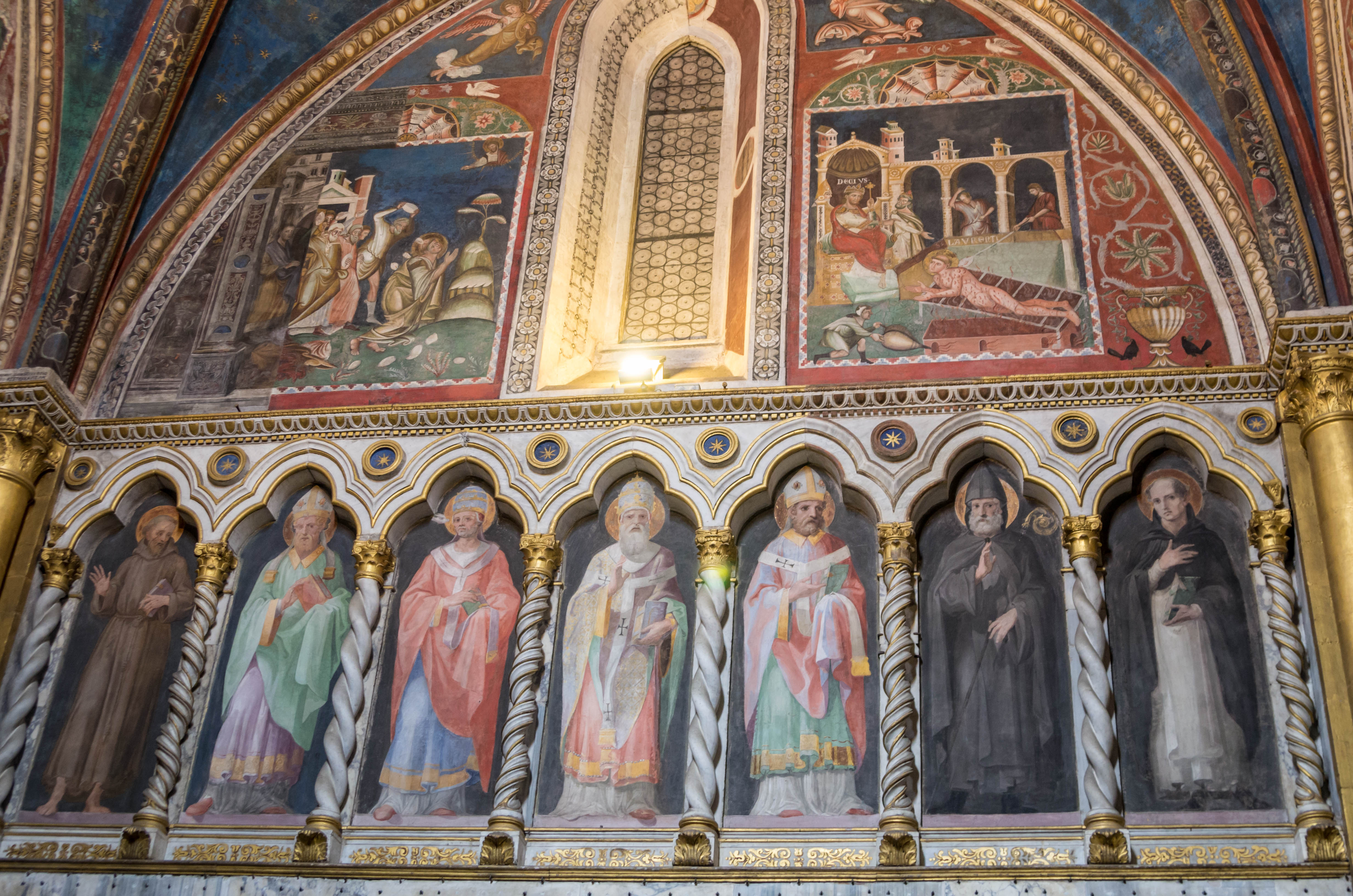 Sancta Sanctorum (Rome)